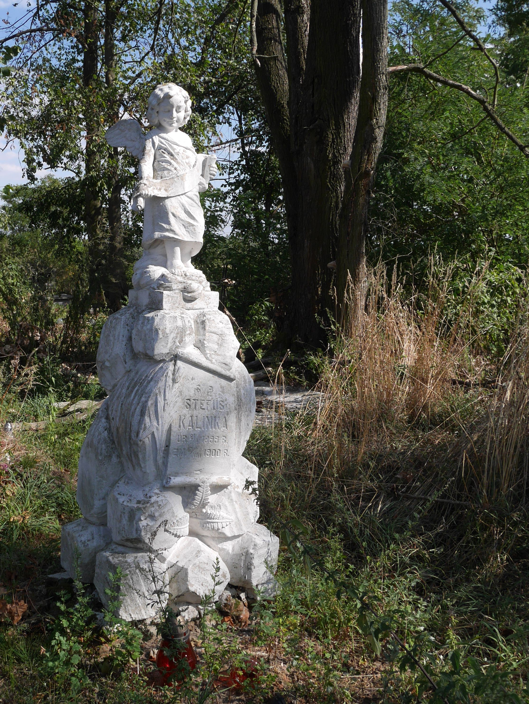 Parish cemetery in Kargów